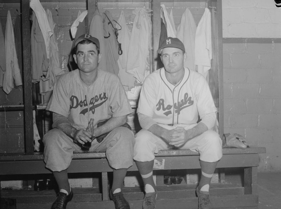 We see two baseball players sitting on a bench. Ed Head played with the Brooklyn Dodgers and Lew Riggs with the Montreal Royals.